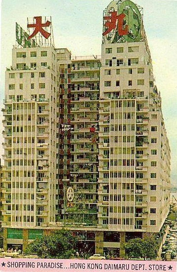 The Daimaru department store in Hong Kong, the first store was opened in Causeway Bay. It was the first Japanese company that started their business in Hong Kong. The business had once prospered, but finally all stores were shut down in Hong Kong in 1998.